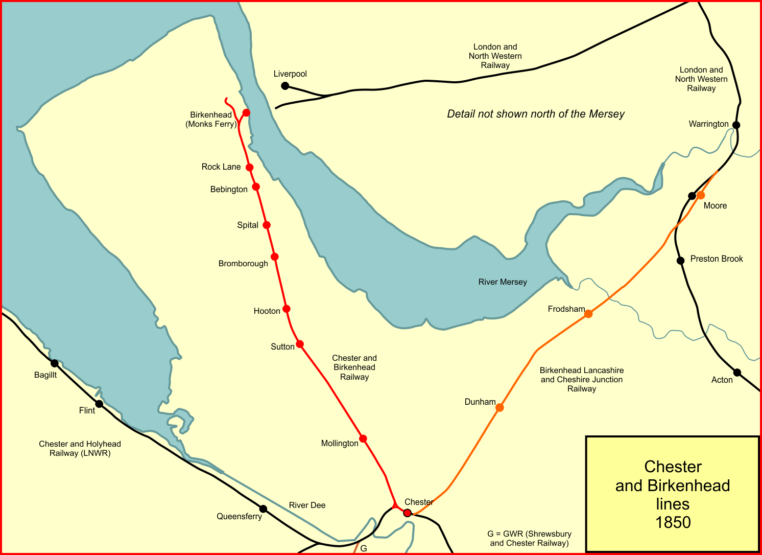 System map of the Birkenhead, Lancashire and Cheshire Junction Railway, England in 1850